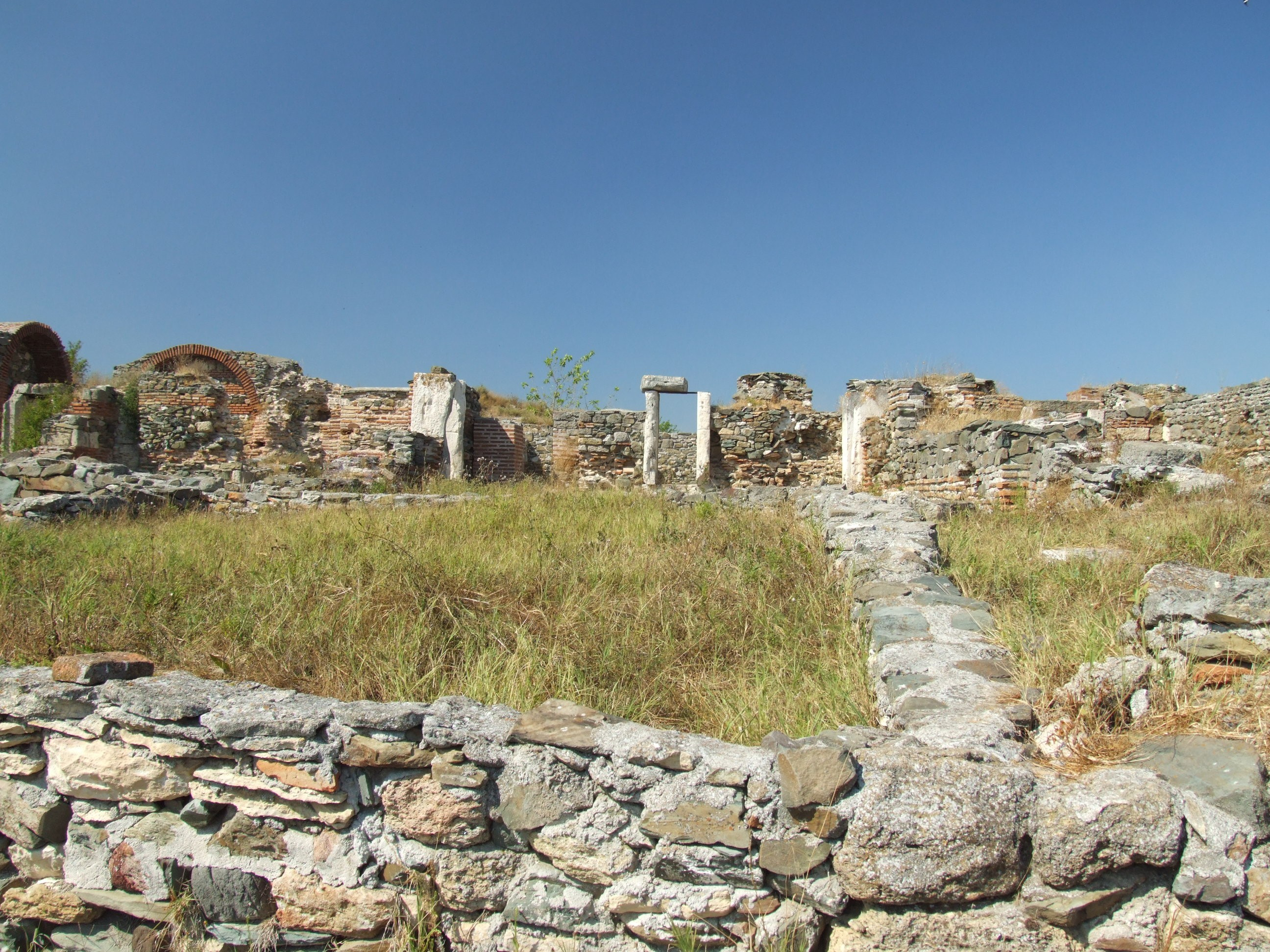 Ruins of the thermae at Histria, Romania 01